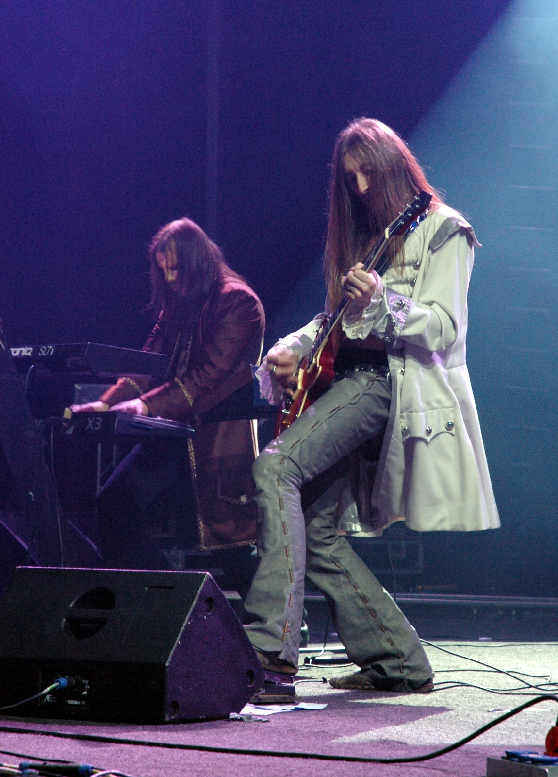 From left: Steinar "Sverd" Johnsen & Tore Moren from Arcturus at Metalmania Festival 2005 in Poland